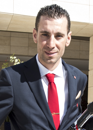 Vincenzo Nibali at Bahrain Merida Pro Cycling Team presentation in Bahrain palace